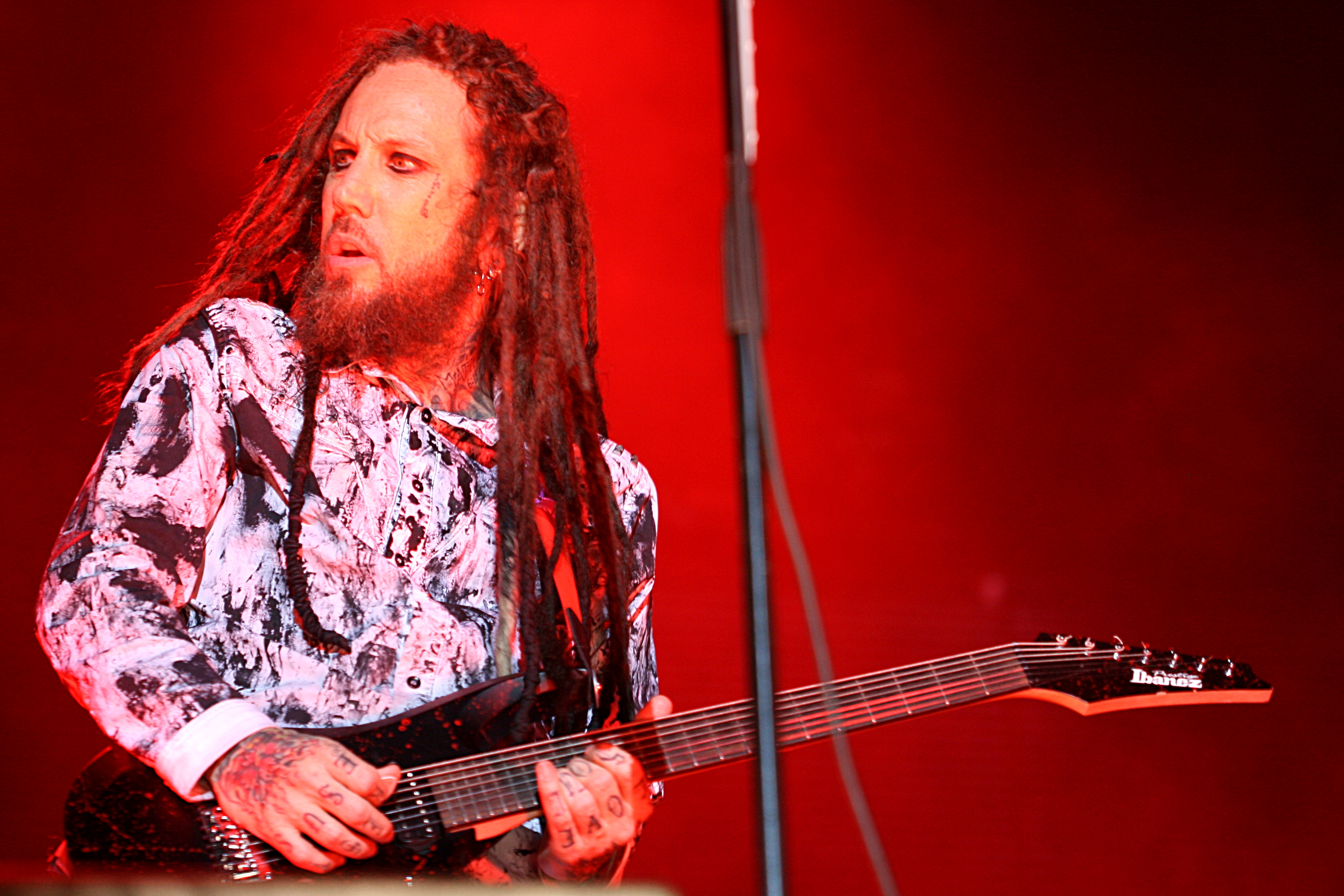 Brian Welch, guitarist of Korn, on the Alterna Stage of Rock im Park-Festival 2013. Festivalsommer This photo was created with the support of donations to Wikimedia Deutschland in the context of the CPB project "Festival Summer".